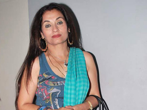 Actress singer Salma Agha at the Dada Saheb Phalke Academy Awards, 2010